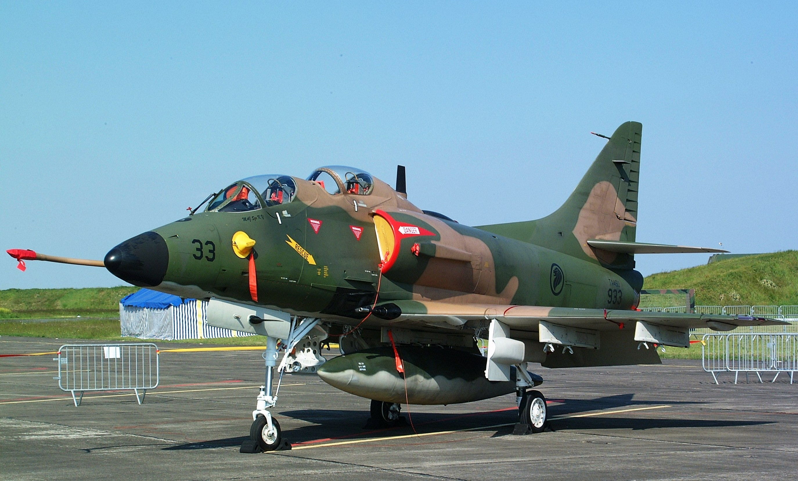 Singapore bases a squadron of these at Cazaux Air Base in the south of France.